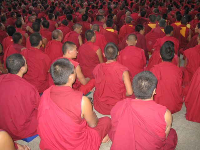 photographer D. Vestin This is a picture of the winter debates held at the Sera Jey Monastery in 2007, Bylakuppe, South India, during the visit by his Holiness Dalai Lama. Debates are part of the education of Gelug monks, and the examination is a very festive thing, with thousands of monks attending.